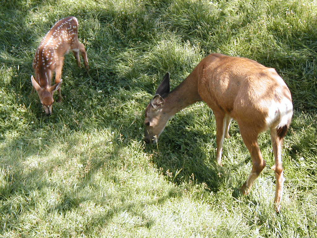 White-tailed Deer, Fawn and mother